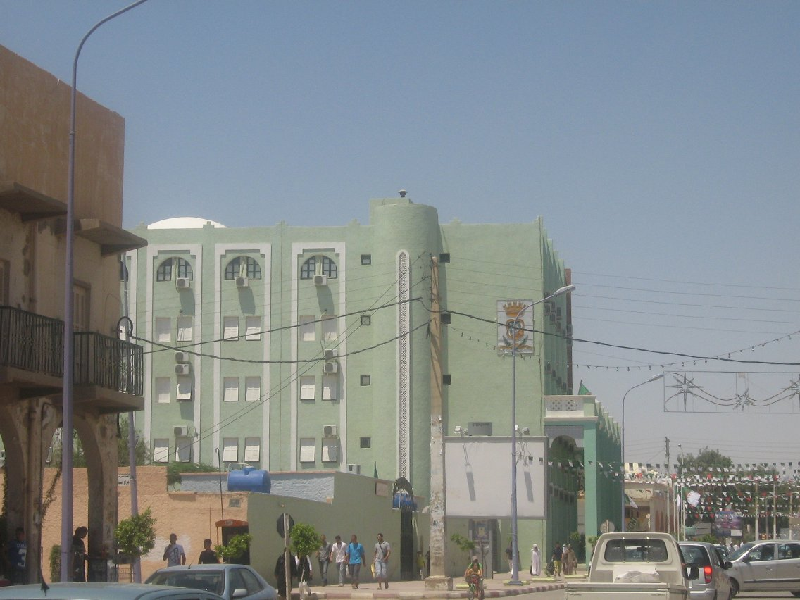 City hall of Biskra — in Biskra Province, Algeria.